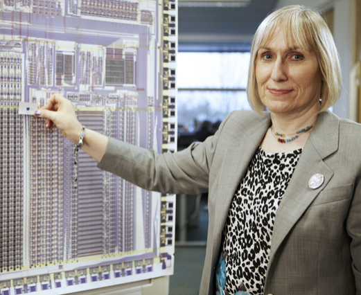 Sophie Wilson near a photograph of the first ARM processor holding a photograph of the ARM Cortex-M0+ to the same scale